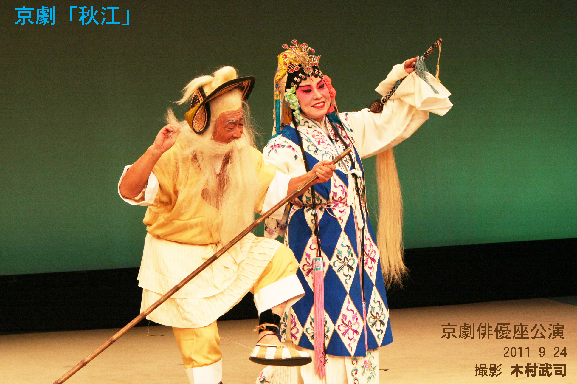 Beijing Opera "Qiujiang"(京劇「秋江」),performed by actress SHIOZAWA Tomoko(塩沢伴子) and actor TOMITA Masahisa(冨田正久),Japan Beijing Opera Study Society & China National Peking Opera Company(日本京劇研究会・中国国家京劇院合同公演). Haiyuza Theater(俳優座劇場),Roppongi,Tokyo,Japan.